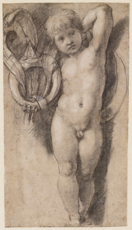 Raphael, Putto carrying the Medici ring and feathers, 1512-14, black chalk, white highlighting; 339 x 194 mm. Collection Teylers Museum, Haarlem, the Netherlands.